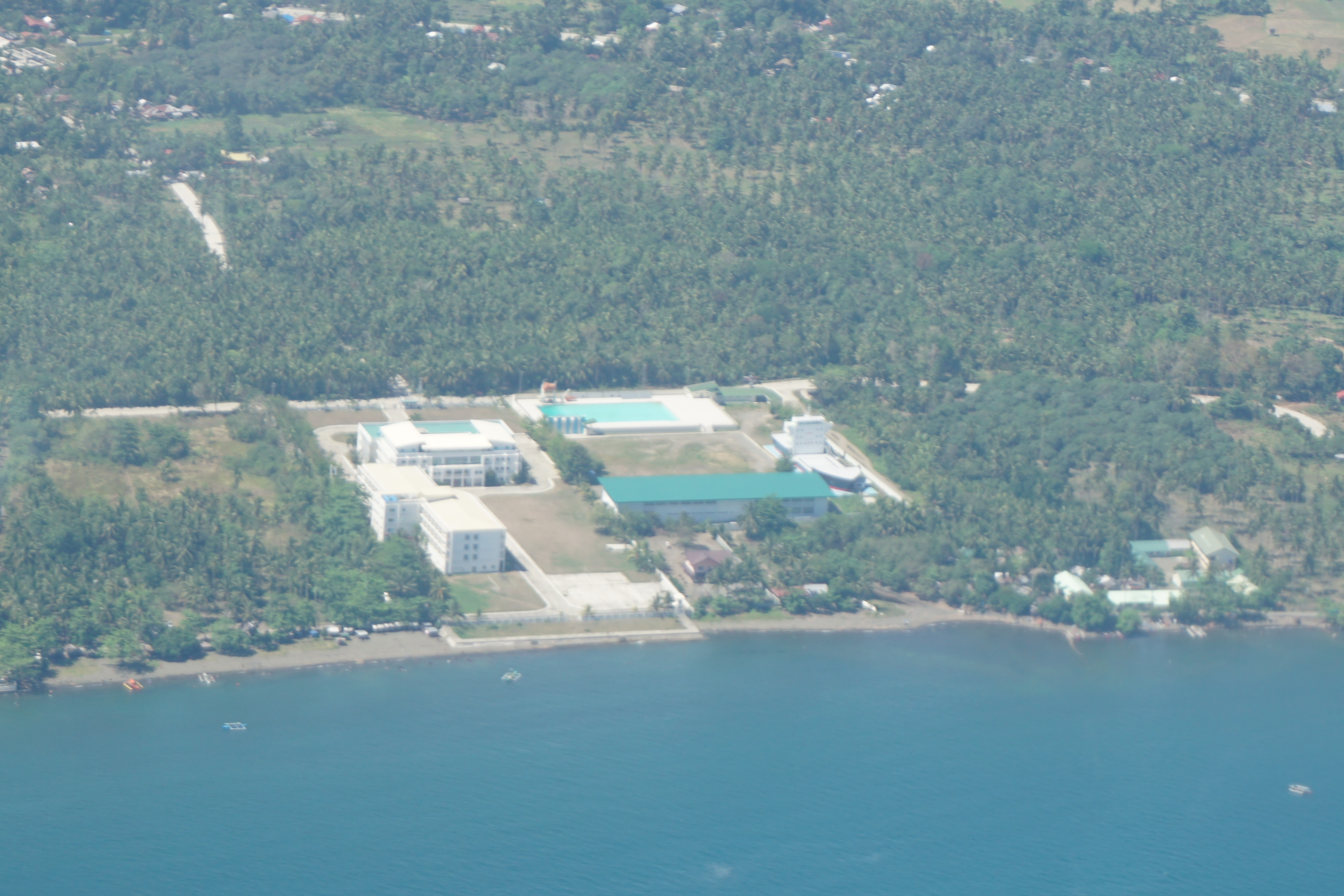 The SJIT Cubi Cubi Campus in Nasipit serves as the new campus for SJIT Students